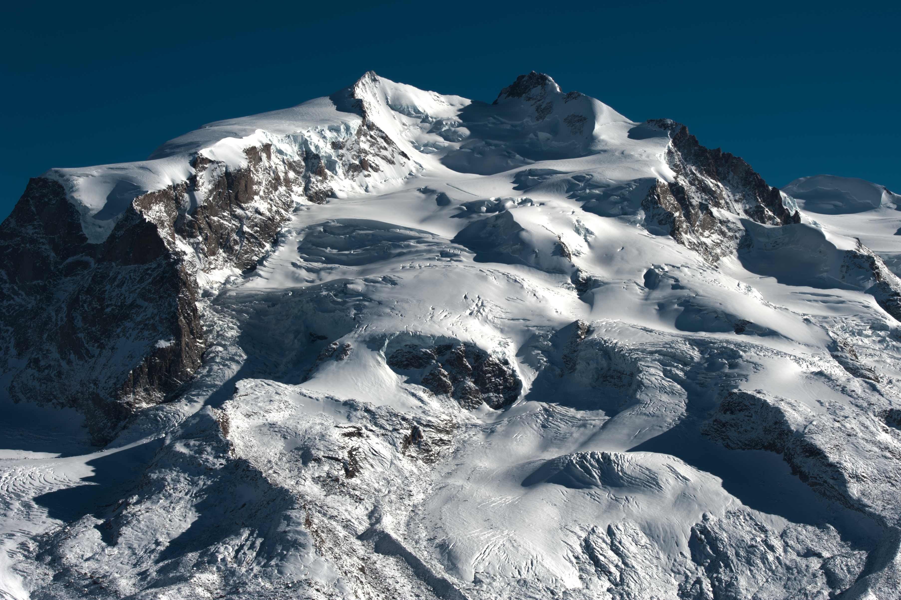 Monte Rosa